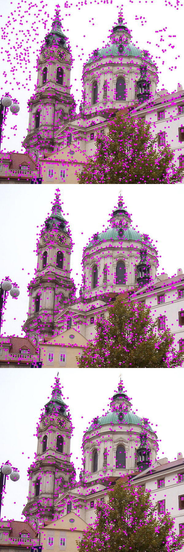 These images are from my presentation of the SIFT algorithm, which can be found at: All these materials (slides, photos, source codes) were done by me (User:Lukas Mach) and are released under CC-BY 3.0.